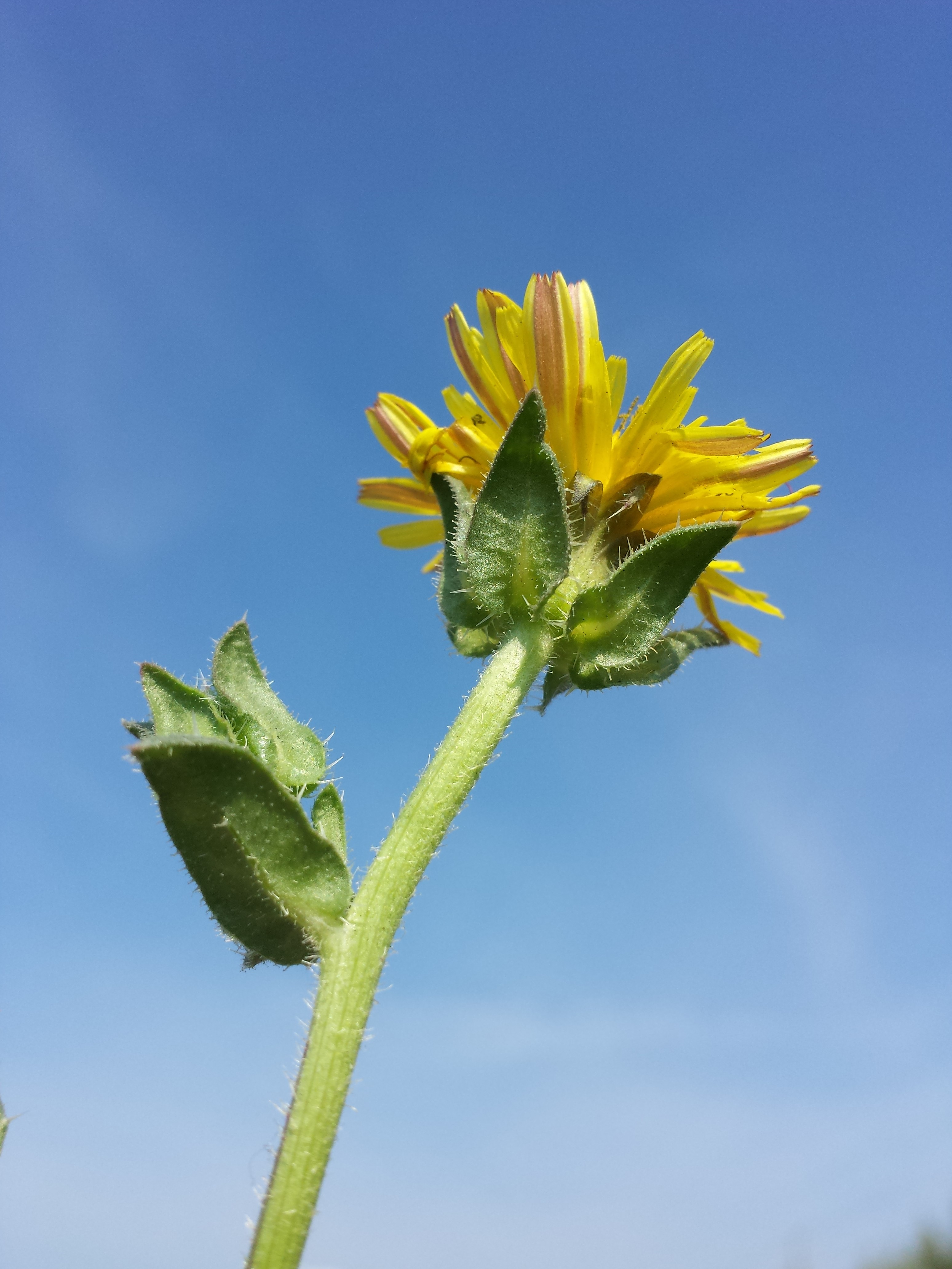 Capitulum with outer involucral bracts Taxonym: Helminthotheca echioides ss Fischer et al. EfÖLS 2008 ISBN 978-3-85474-187-9 Location: Freudenauer Hafenstraße, Vienna-Leopoldstadt - ca. 150 m a.s.l. Habitat: dry, ruderal slope